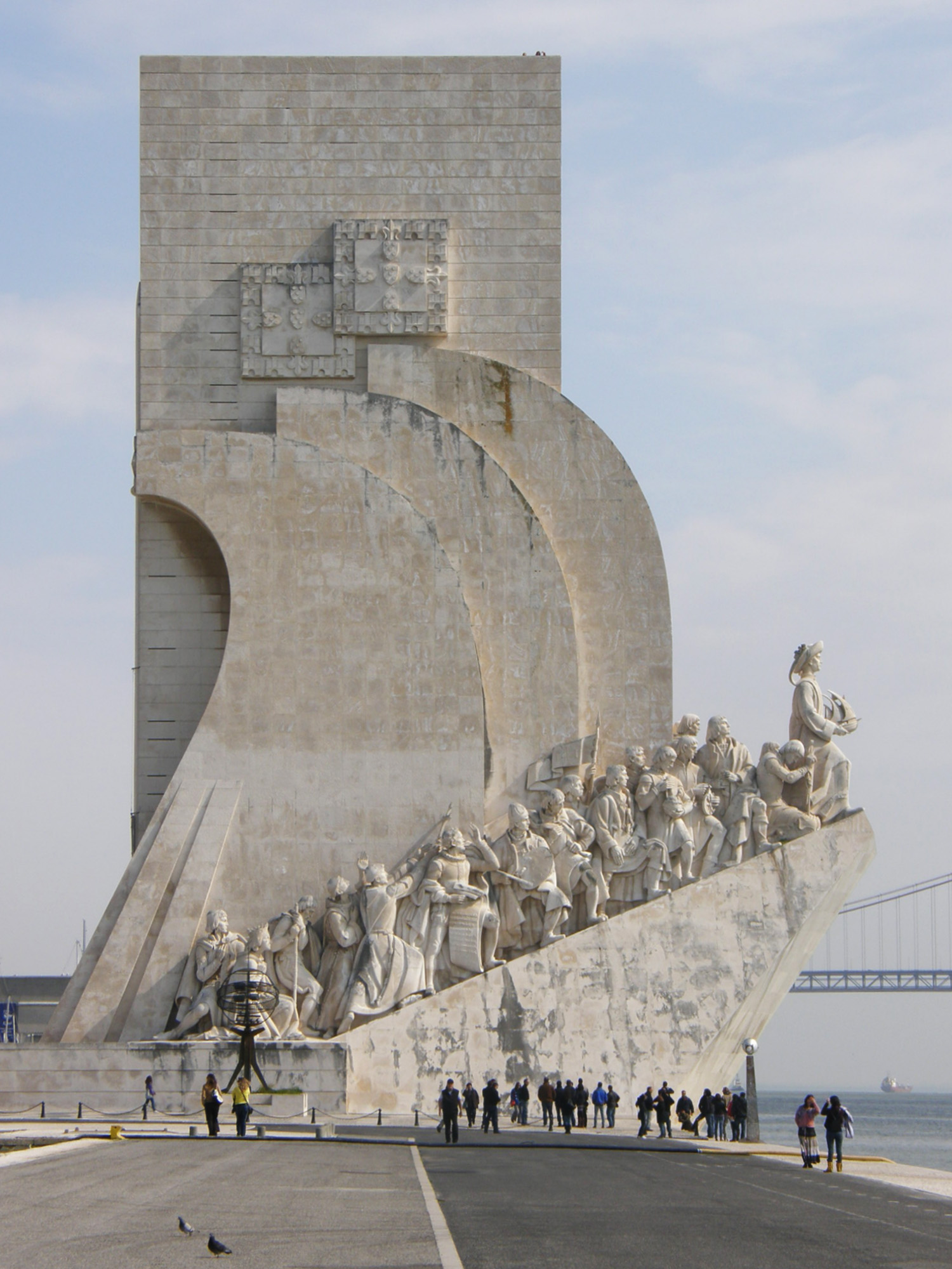 The Monument to the Discoveries in Belém, Lisbon, was built in 1960 to commemorate the 500th anniversary of the death of D. Henry The Navigator. It is 52 meters high